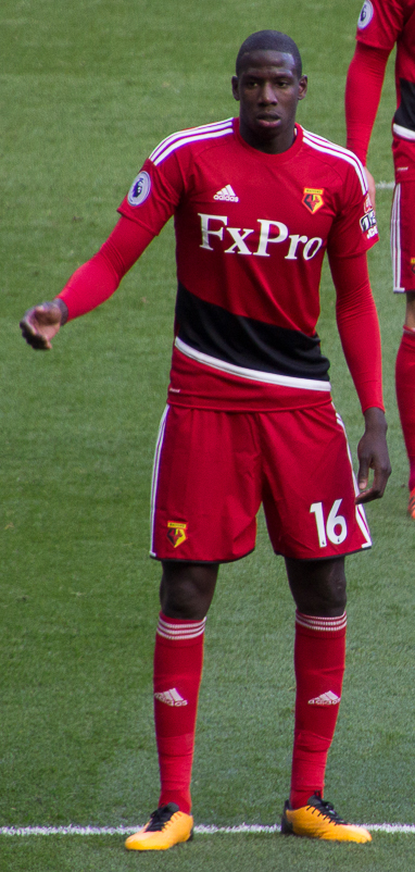 Chelsea 4 Watford 2